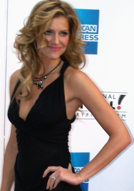 Tricia Helfer poses for pictures on the red carpet during the Calgary International Film Festival. Helfer was attending the gala showing Walk All Over Me, which she stars in. The film was shown at the Uptown Stage at 612 8th Avenue SW, Calgary, Alberta, Canada.